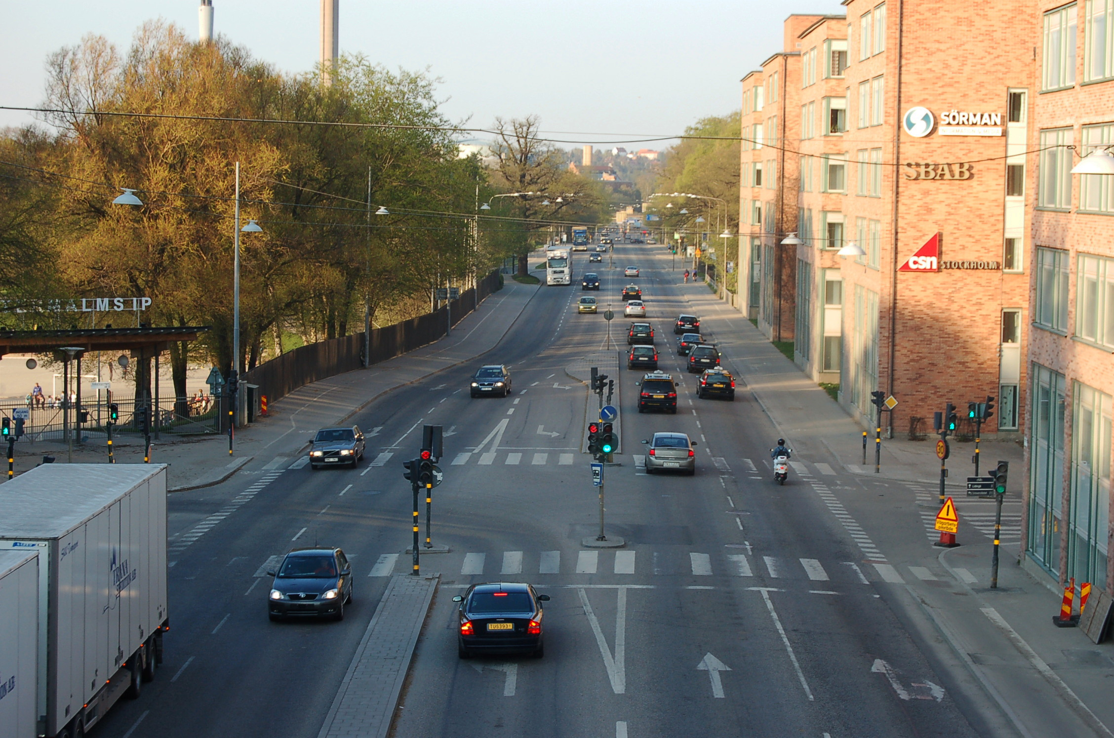 Lidingövägen in Stockholm, Sweden, view towards Lidingö